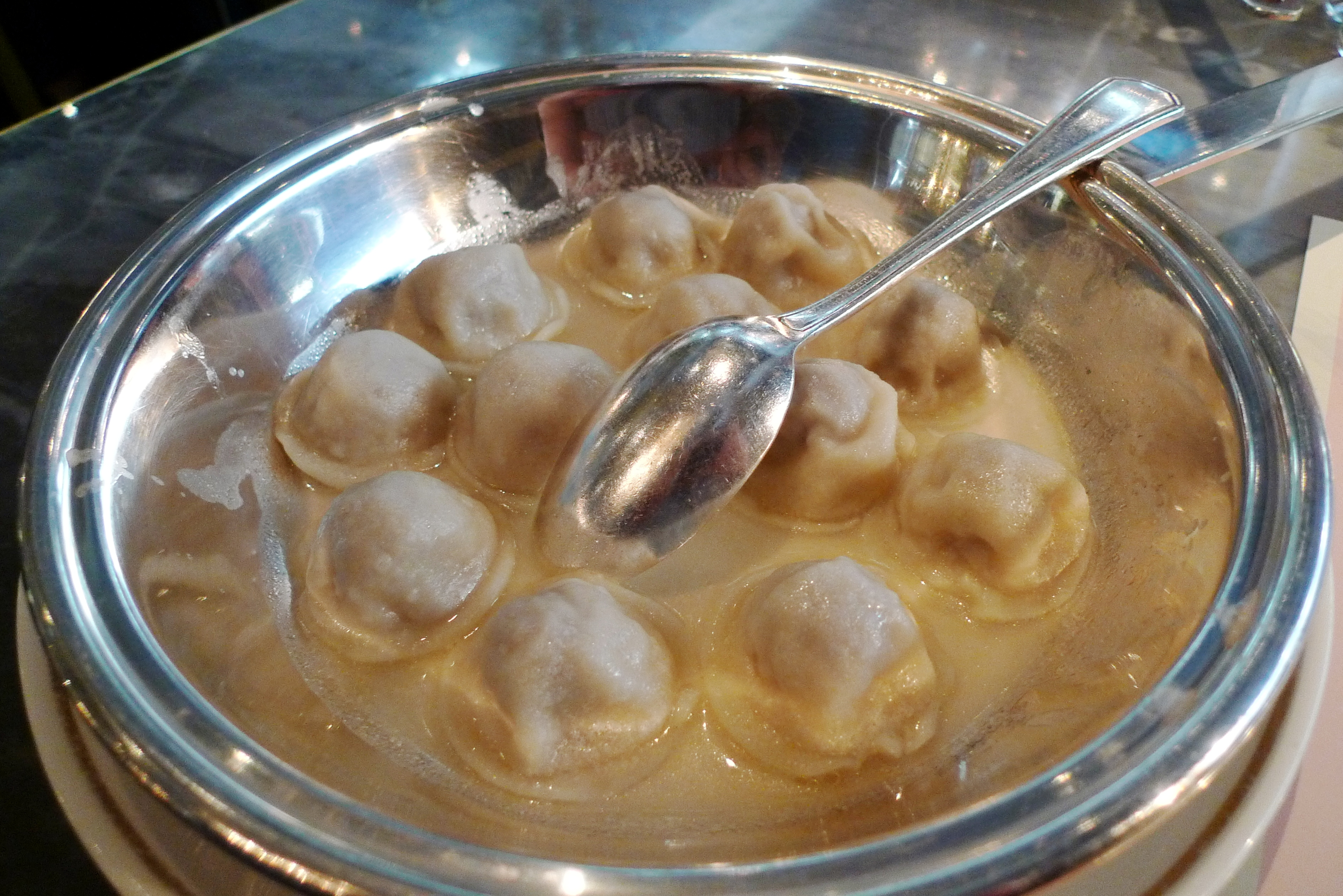 The meat pelmeni, just like dumplings, and rather tasty. At Bob Bob Ricard, Upper James Street.